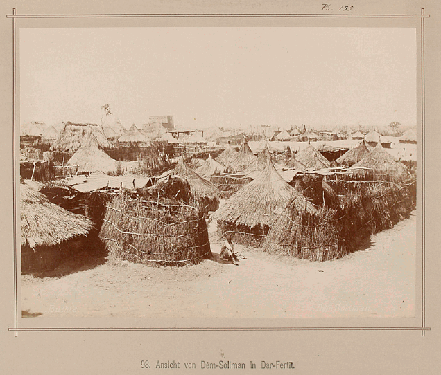 View of Dem Suliman (Deim Zubeir) in 1879, with the two-storeyed residence of General Romolo Gessi, built for Suleiman Zubeir, in the background.